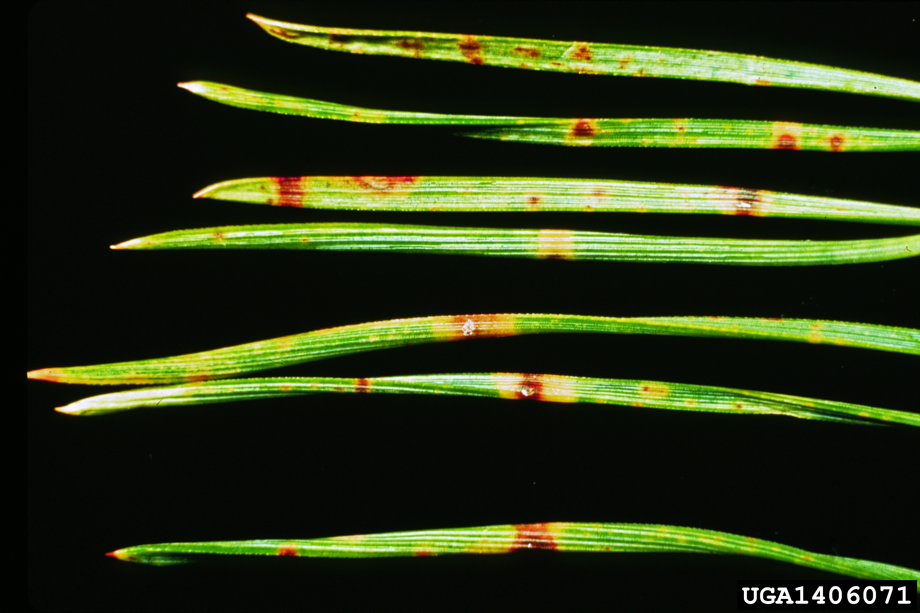 Lophodermium pinastri (Schrad.) Chevall. pine needle cast on Scots pine (Pinus sylvestris L.)